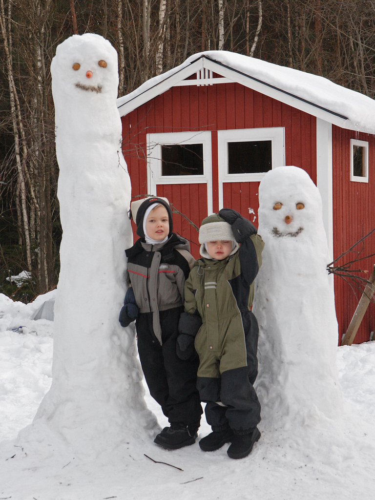 "We made these hattifatteners by ourselves, almost. Mom helped, but just a little..."